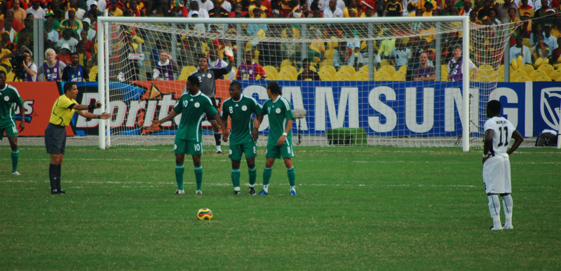 Muntari lines up a freekick at te 2008 African Cup of Nations in Ghana